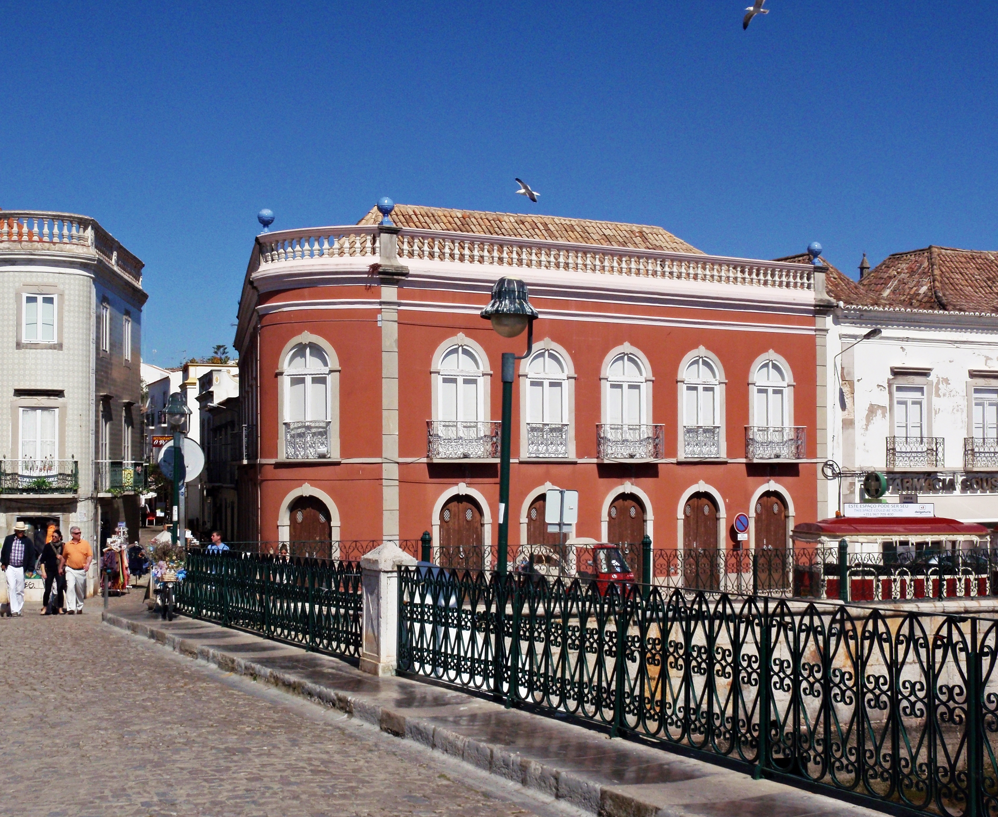 Spring in Tavira